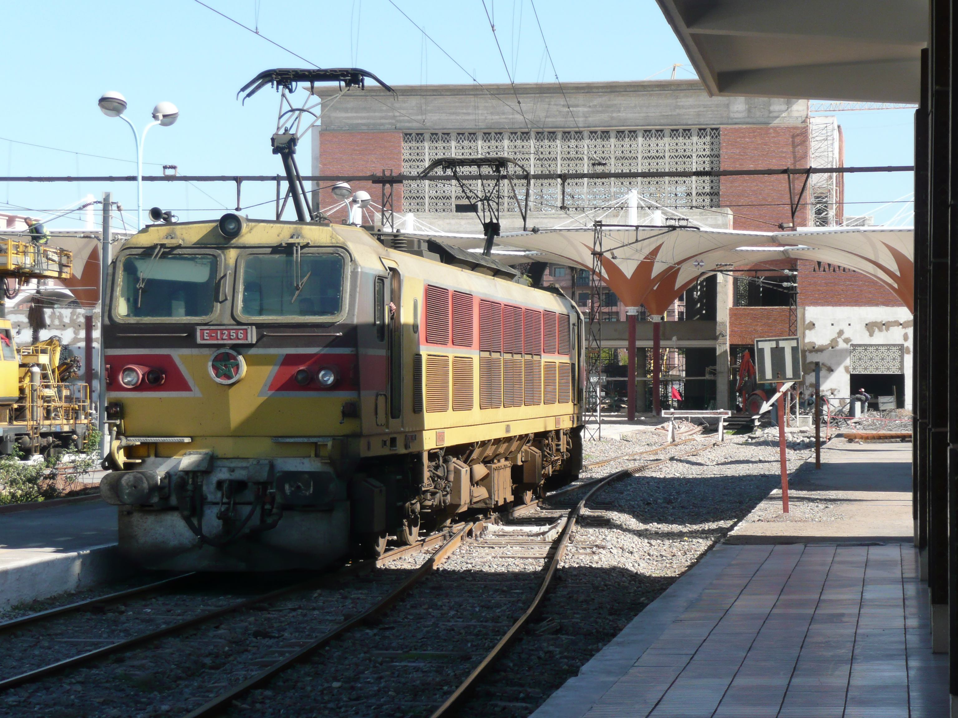 ONCF locomotive E-1256 in Marrakech railway station, Morocco.